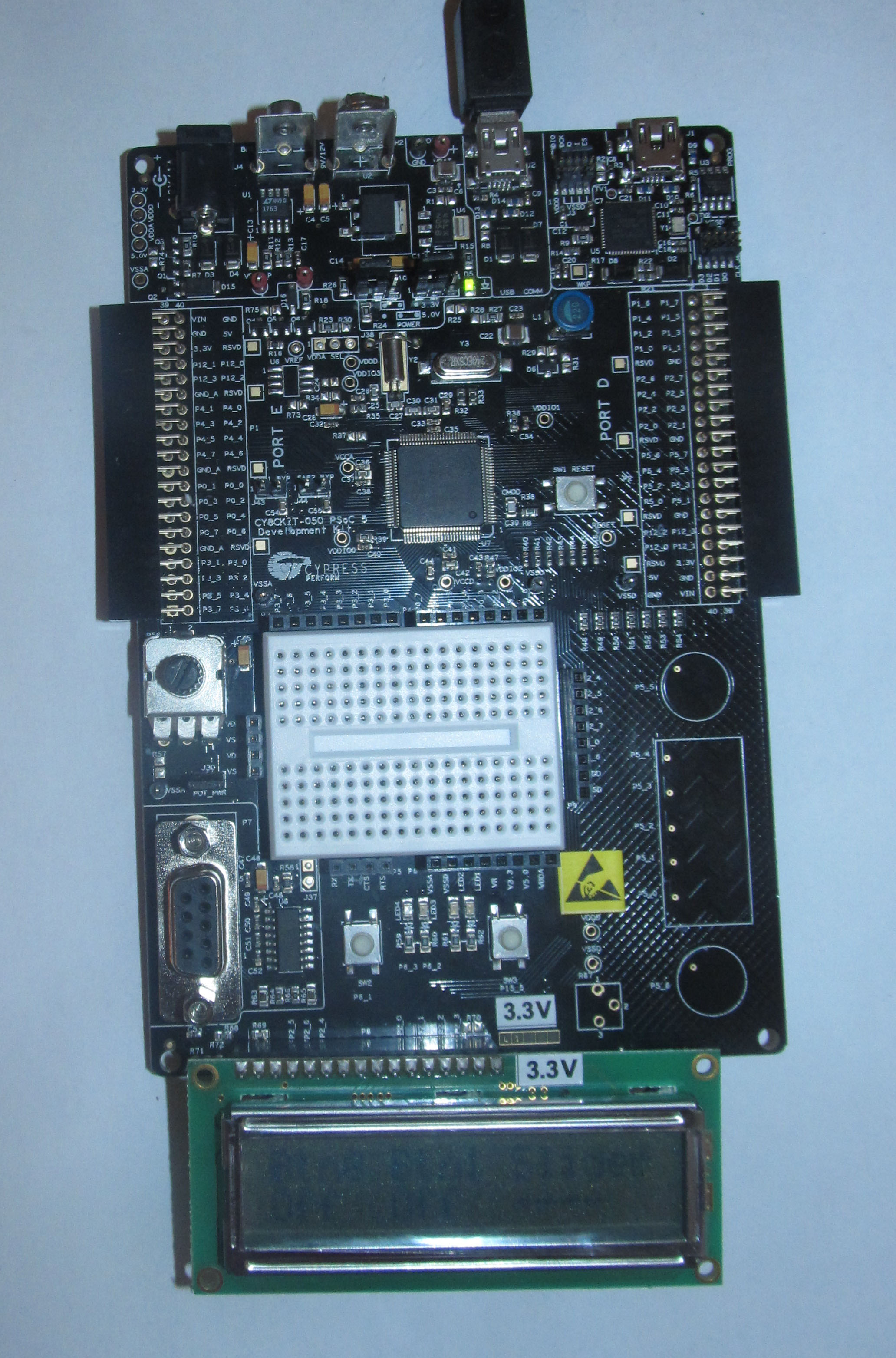 CY8CKIT-050 PSoC® 5LP Development Kit